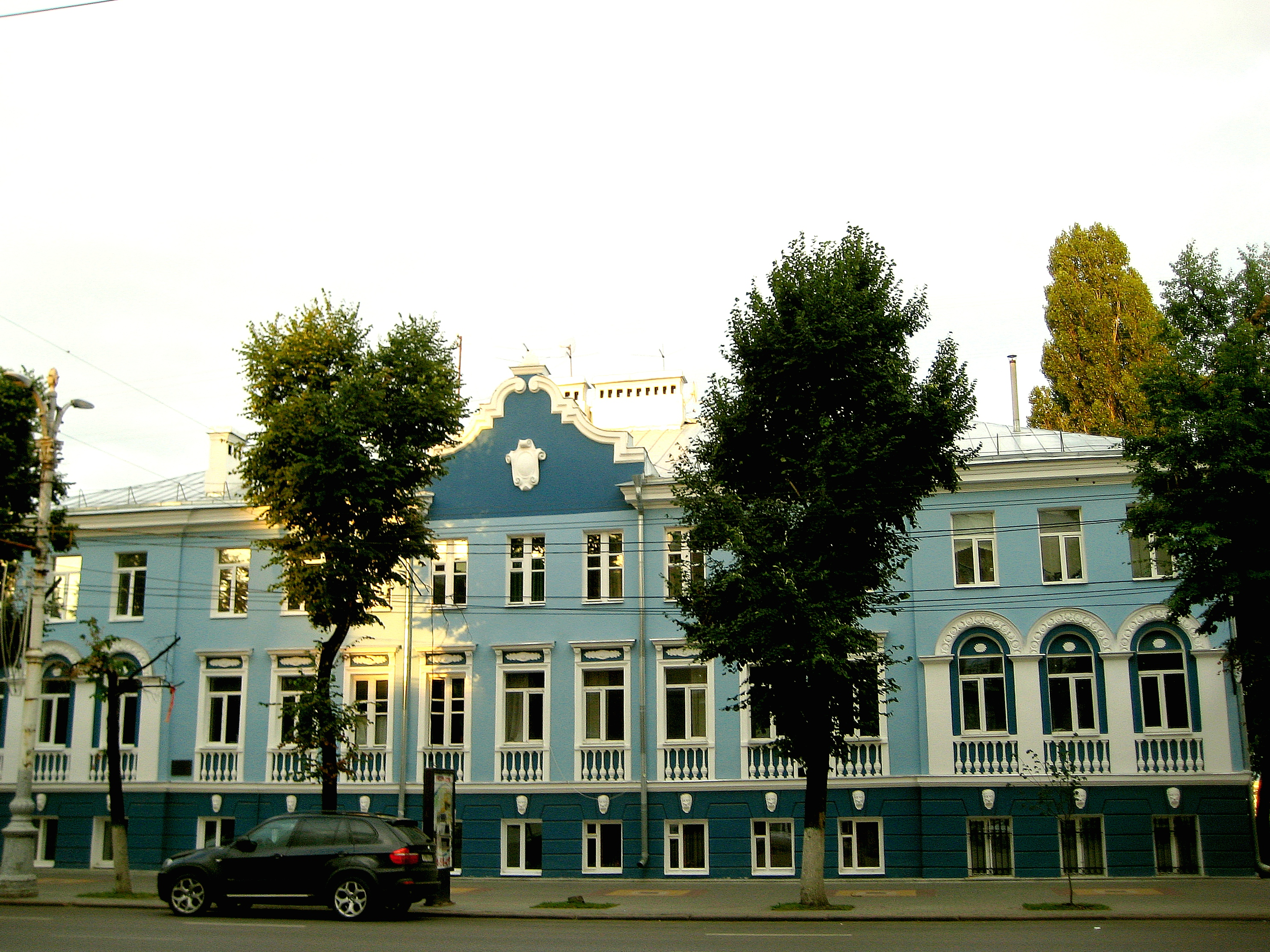 Hotel S.N. Shvanvich (House with the Lions): Revolution Avenue, 27, Voronezh region